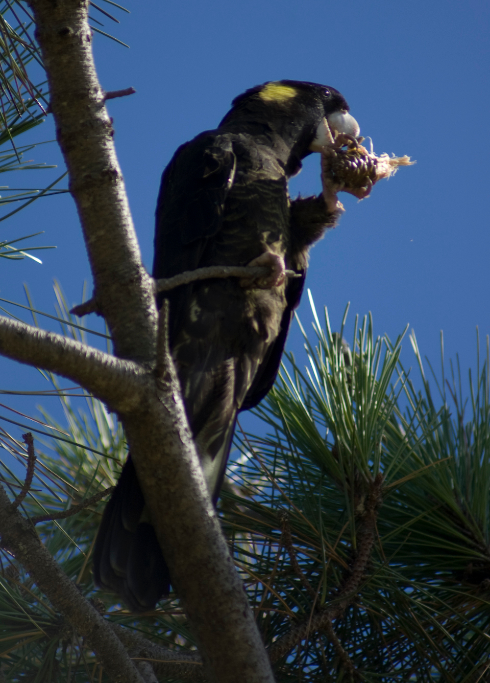 A female Yellow-tailed Black Cockatoo at Pebbly Beach, Murramarang National Park, Australia. It is holding a pine cone in its left food near its beak to eat the pine nuts in the cone.